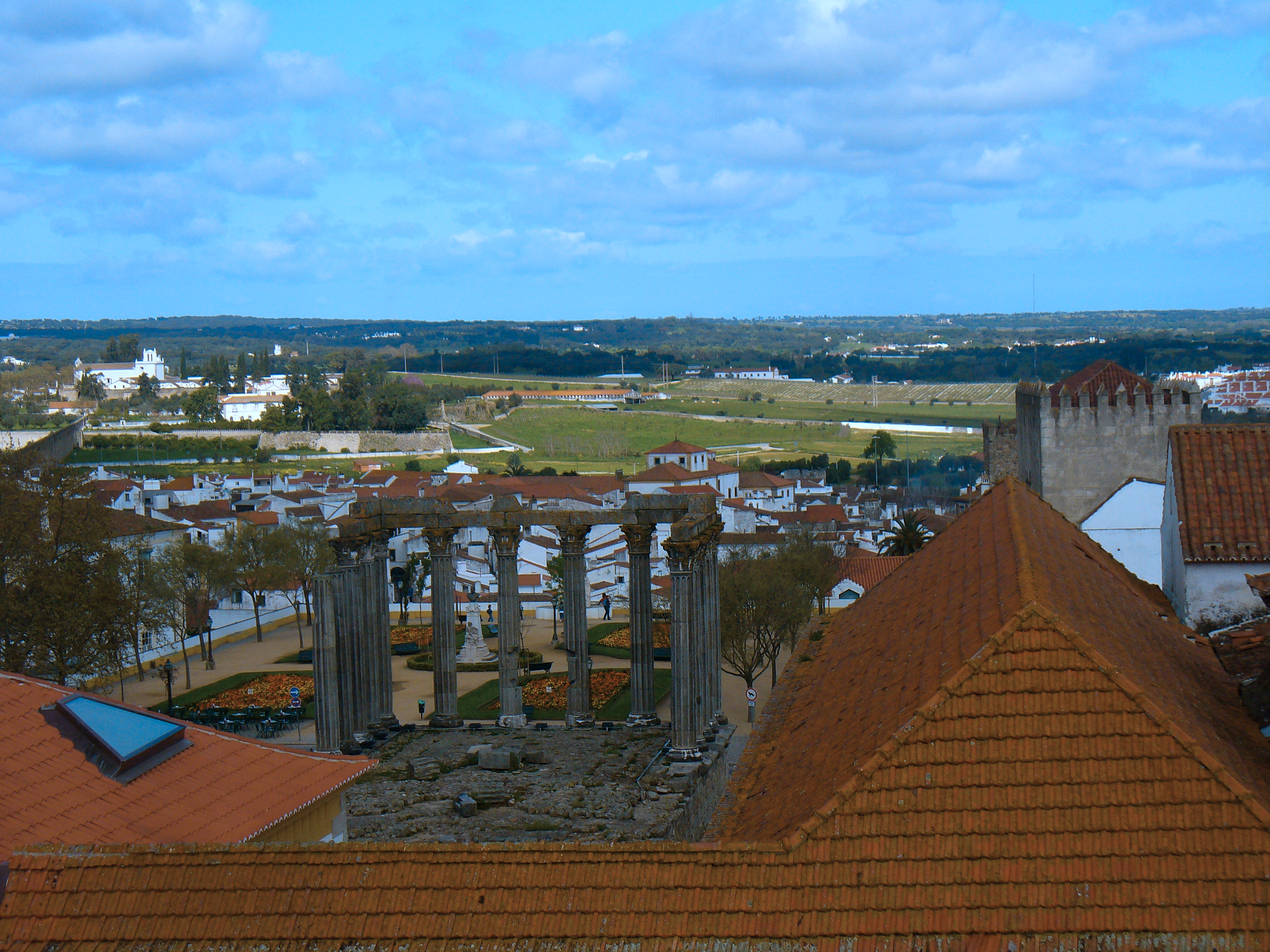 AWIB-ISAW: The Temple of Diana at Evora (V) The Roman temple of Diana in Evora, viewed from an adjacent hillside. by Sarah Ferguson (2010) copyright: 2010 Sarah Ferguson (used with permission) photographed place: Ebora (Evora) Published by the Institute for the Study of the Ancient World as part of the Ancient World Image Bank (AWIB). Further information